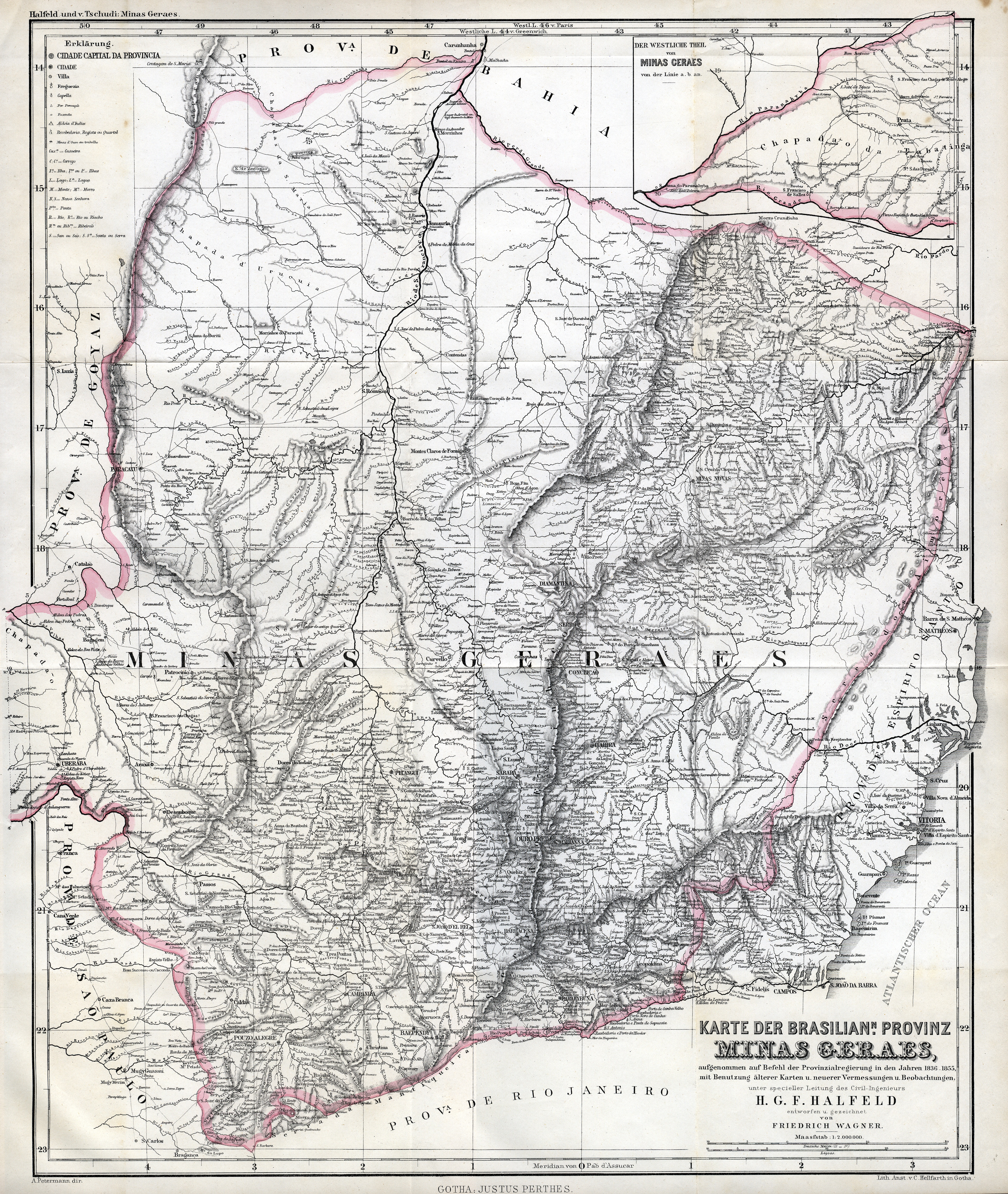 Minas Gerais, 1865